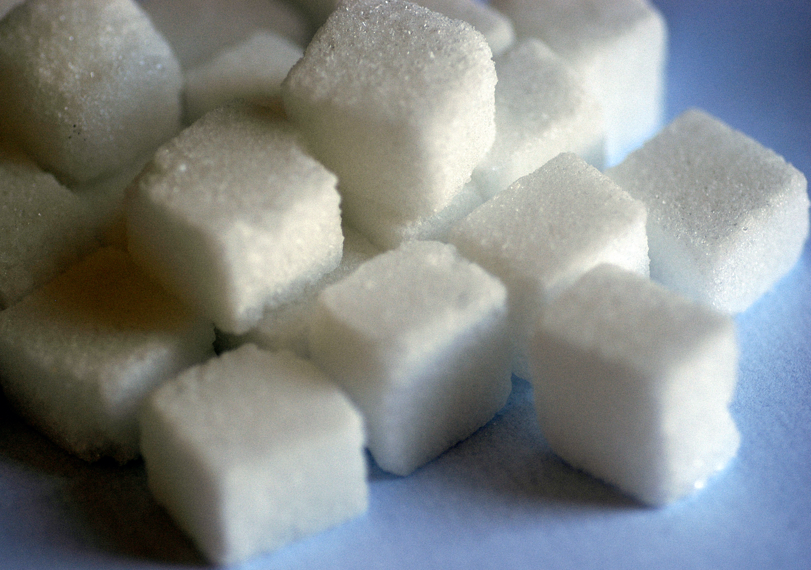 sugar cubes